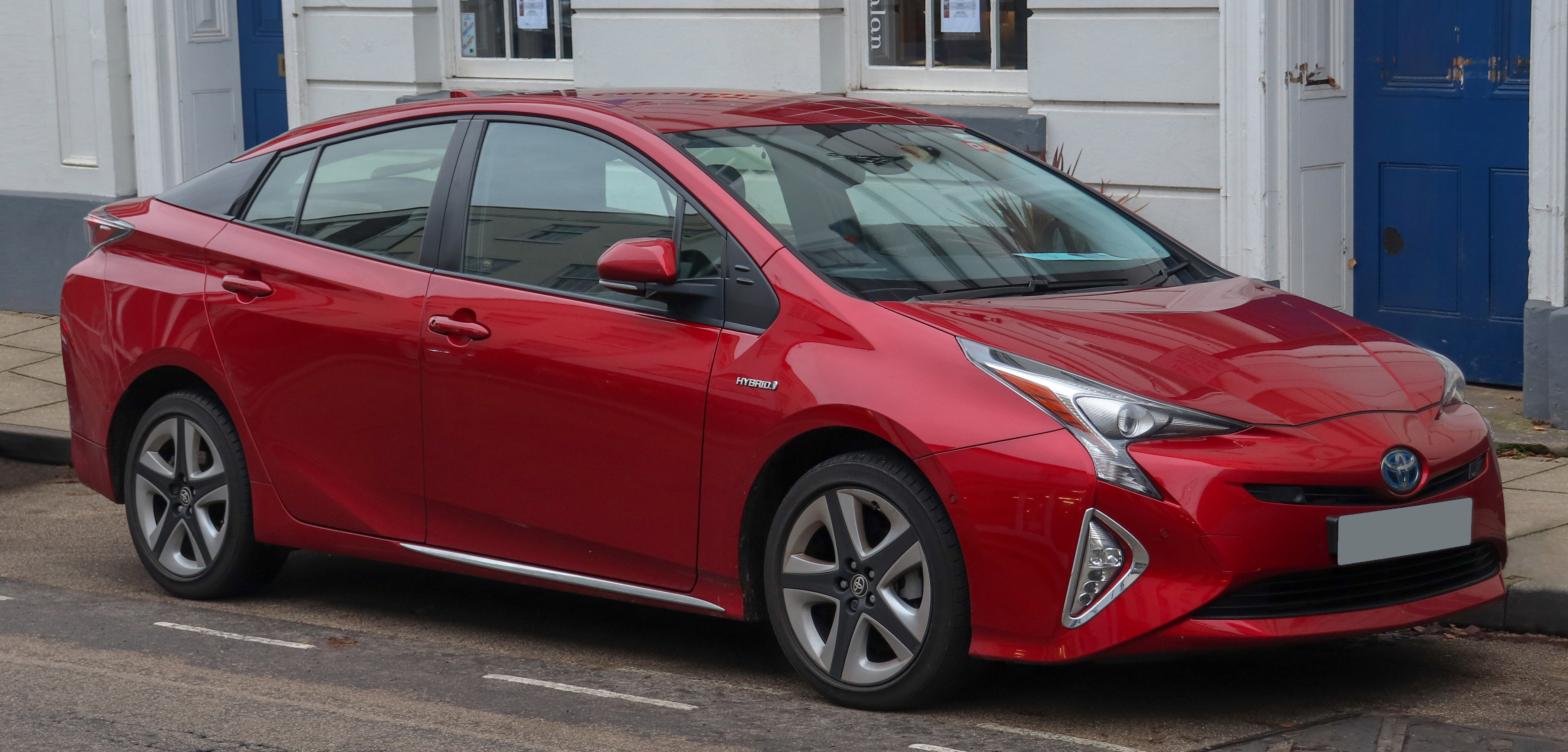 2016 Toyota Prius Excel VVT-I CVT 1.8